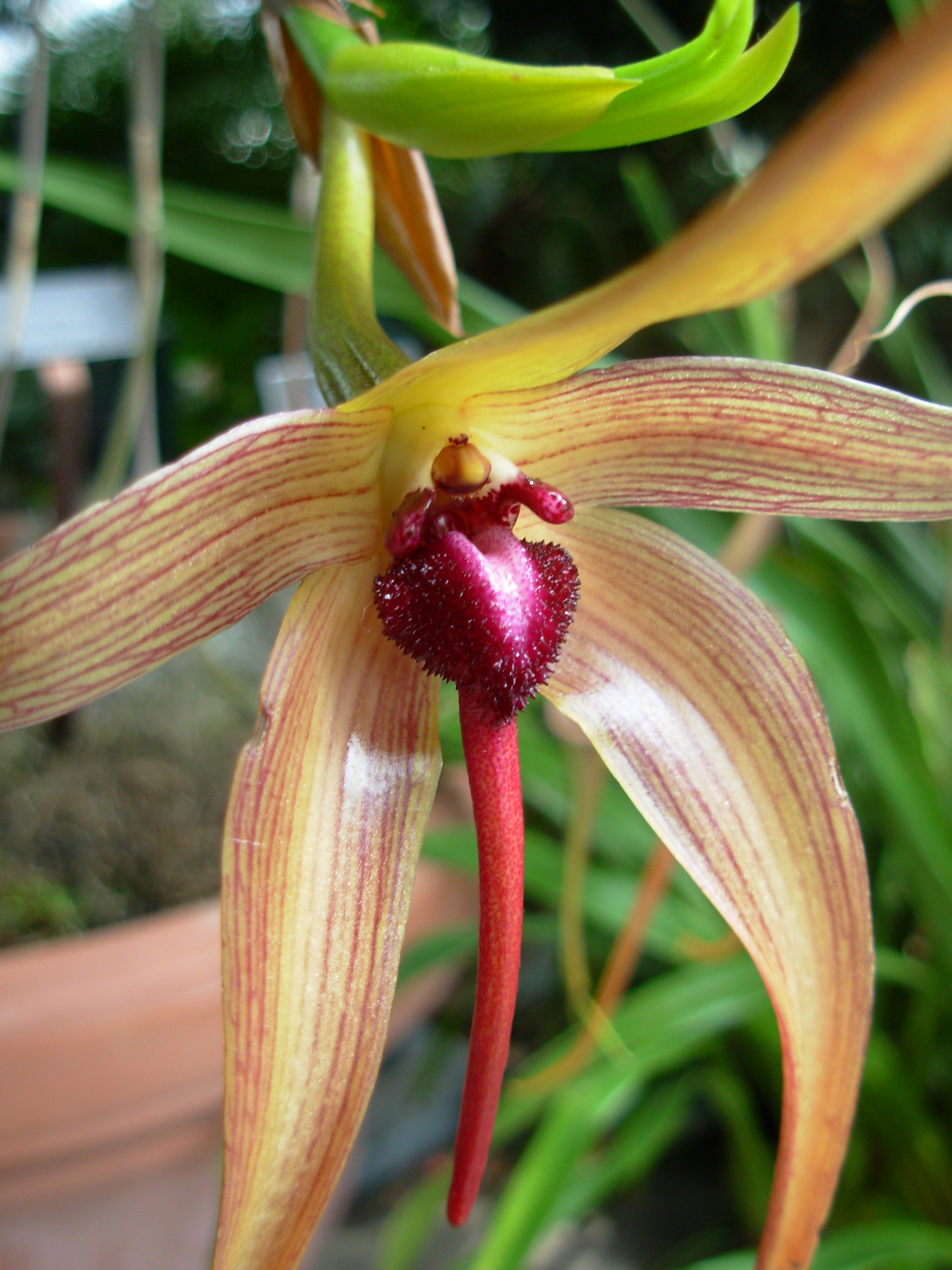 Bulbophyllum echinolabium - Taken at NYBG 2007